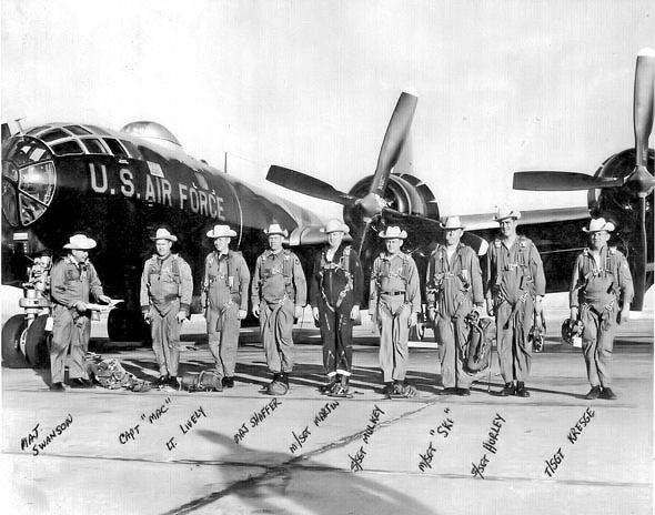 7406th Support Squadron Boeing RB-50B-55-BO Superfortress 47-157? Wiesbaden AB, West Germany, 1956. modified as RB-50G? with additional radar and B-50D type nose (photo does not show the aircraft with a B-50D nose). Oct 1950. To MASDC Aug 1961. Dropped from inventory as surplus Oct 1961